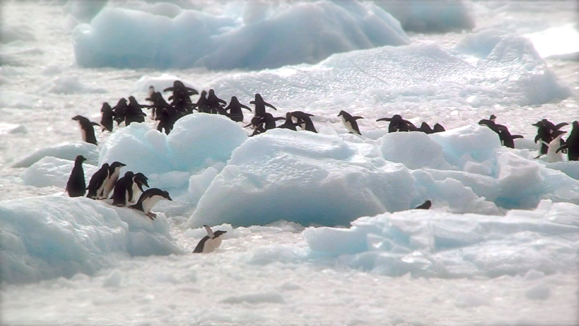 Adélie penguins (Pygoscelis adeliae) in Antarctica, Antarctic Peninsula